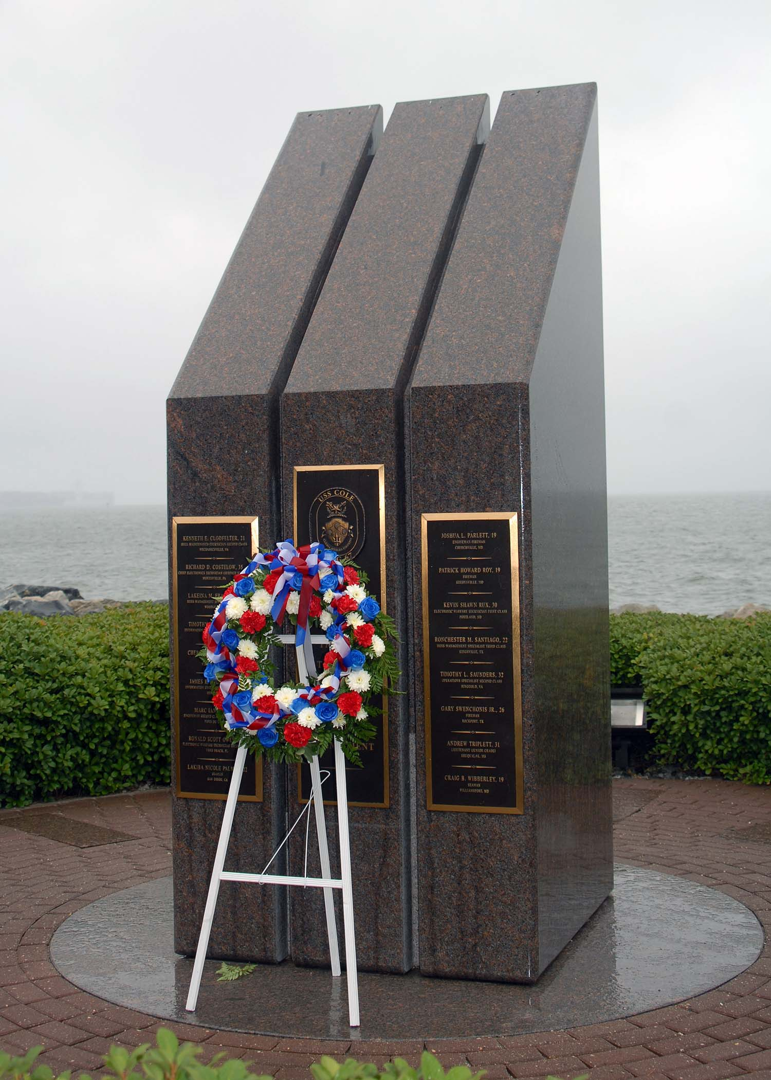 NORFOLK (Oct. 12, 2001) A wreath is placed at the USS Cole memorial at Naval Station Norfolk during an annual remembrance ceremony. The Norfolk-based ship was damaged by a suicide bombing Oct. 12, 2000 while refueling in the Port of Aden in Yemen, killing 17 and wounding 39 Sailors. Cole returned to the fleet in 2002 and has deployed four times since the attack. (U.S. Navy photo by Ensign Elizabeth Williams/Released)